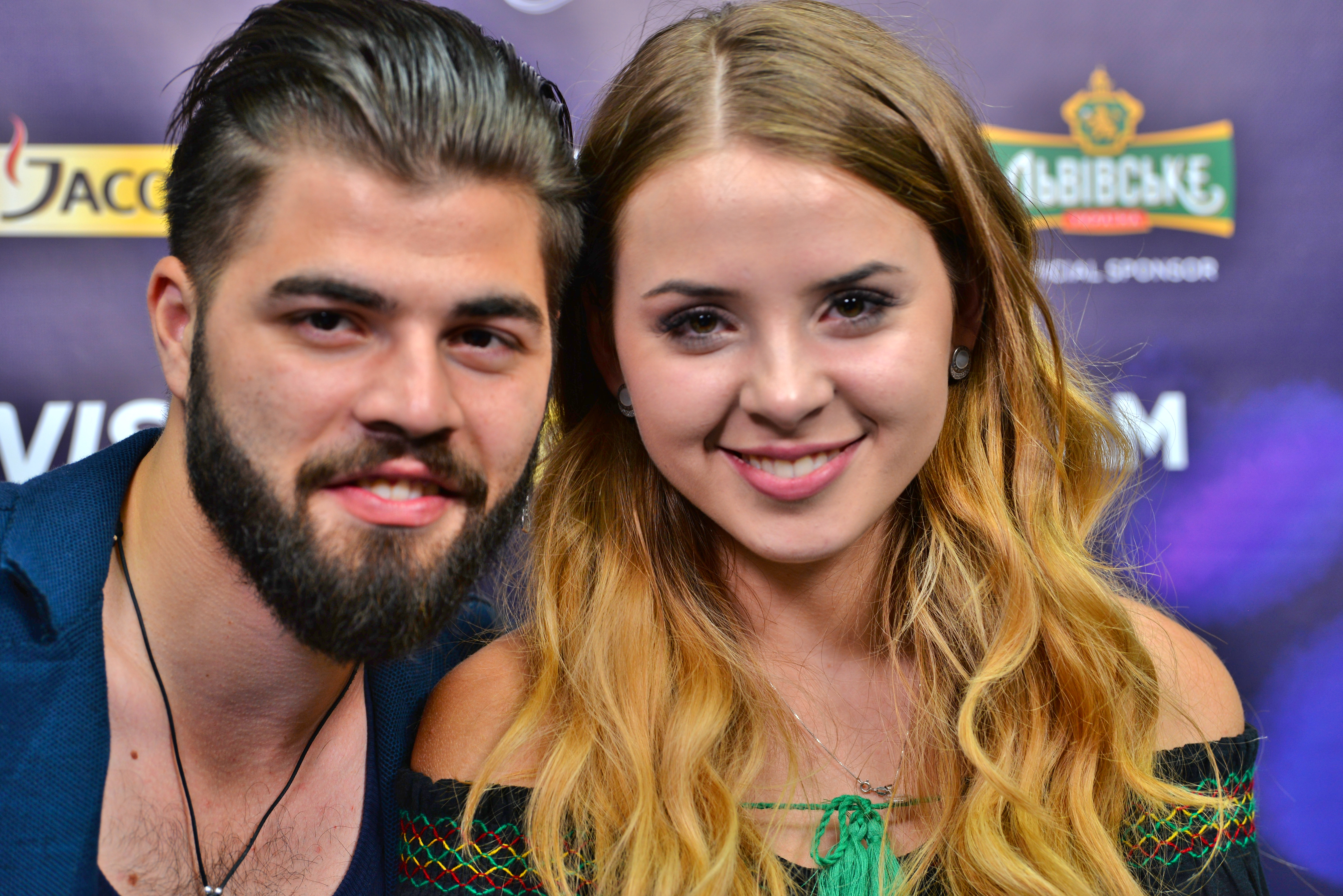 Rumanian jodle singer Ilinca Băcilă and Alex Florea in Kyiv 2017